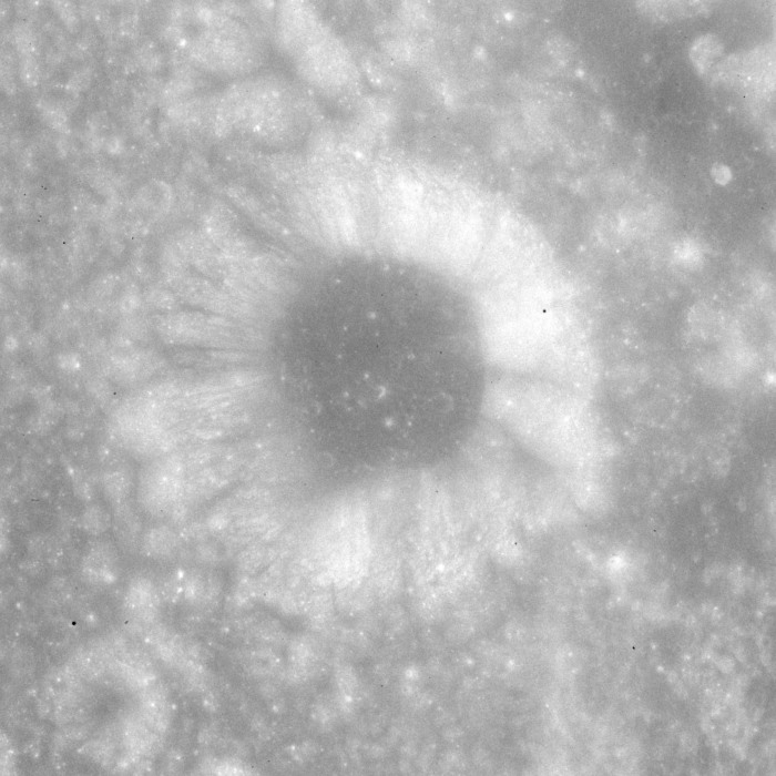 Townley crater, the moon. Rotated so that north is at top.